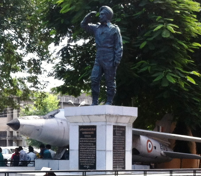 Statue of Param Vir Flying Officer Nirmal Jit Singh Sekhon and his aircraft at district court of Ludhiana.